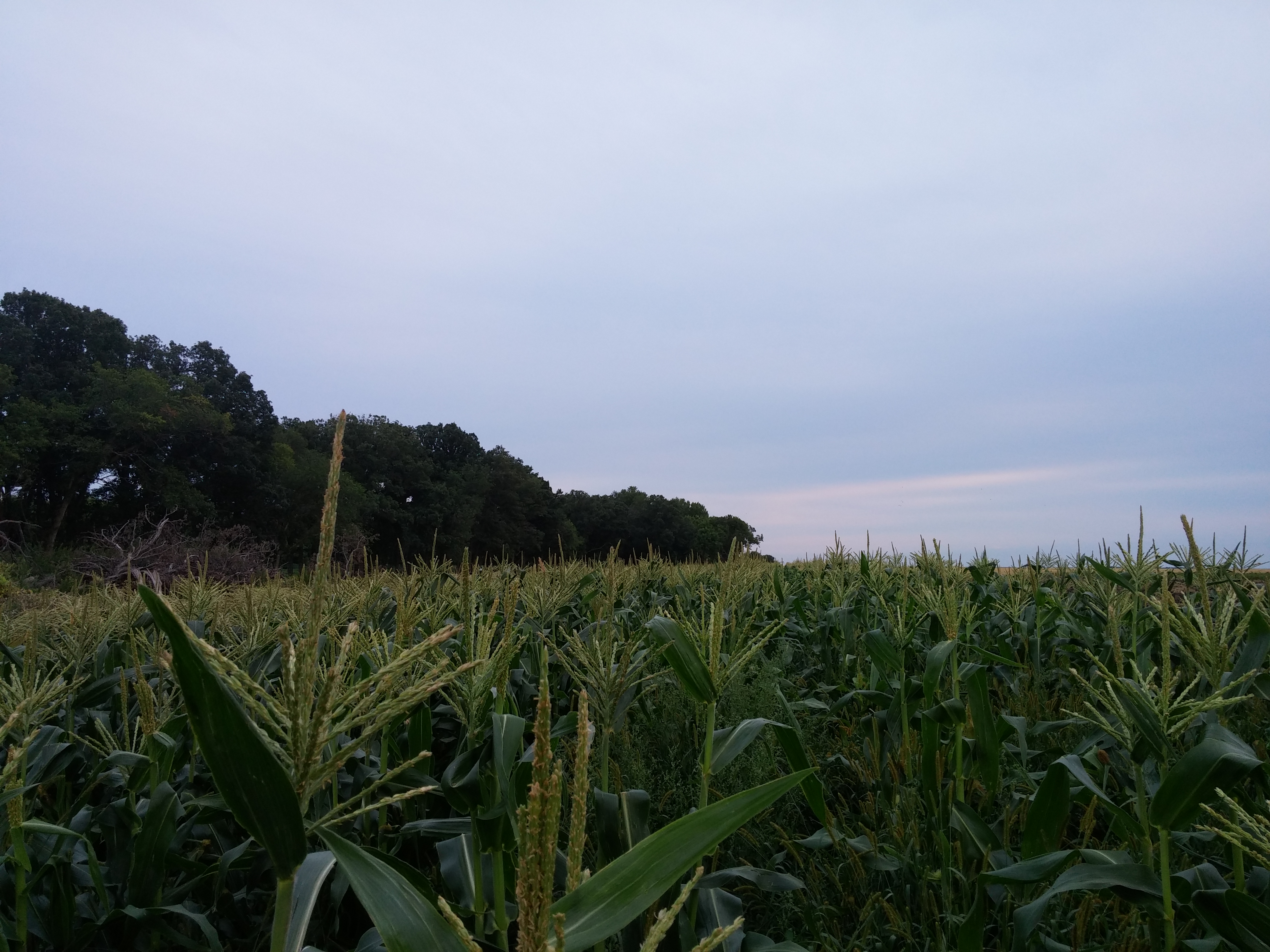 Corn field in near Starbuck, Manitoba, Canada